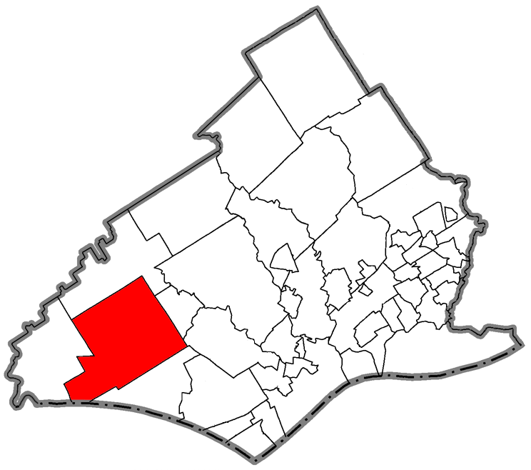 Showing the location within Delaware County, Pennsylvania.